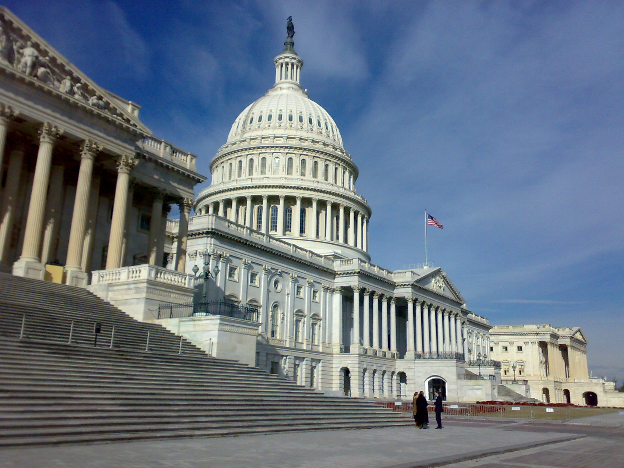 US Congress on Capitol Hill, Washington DC